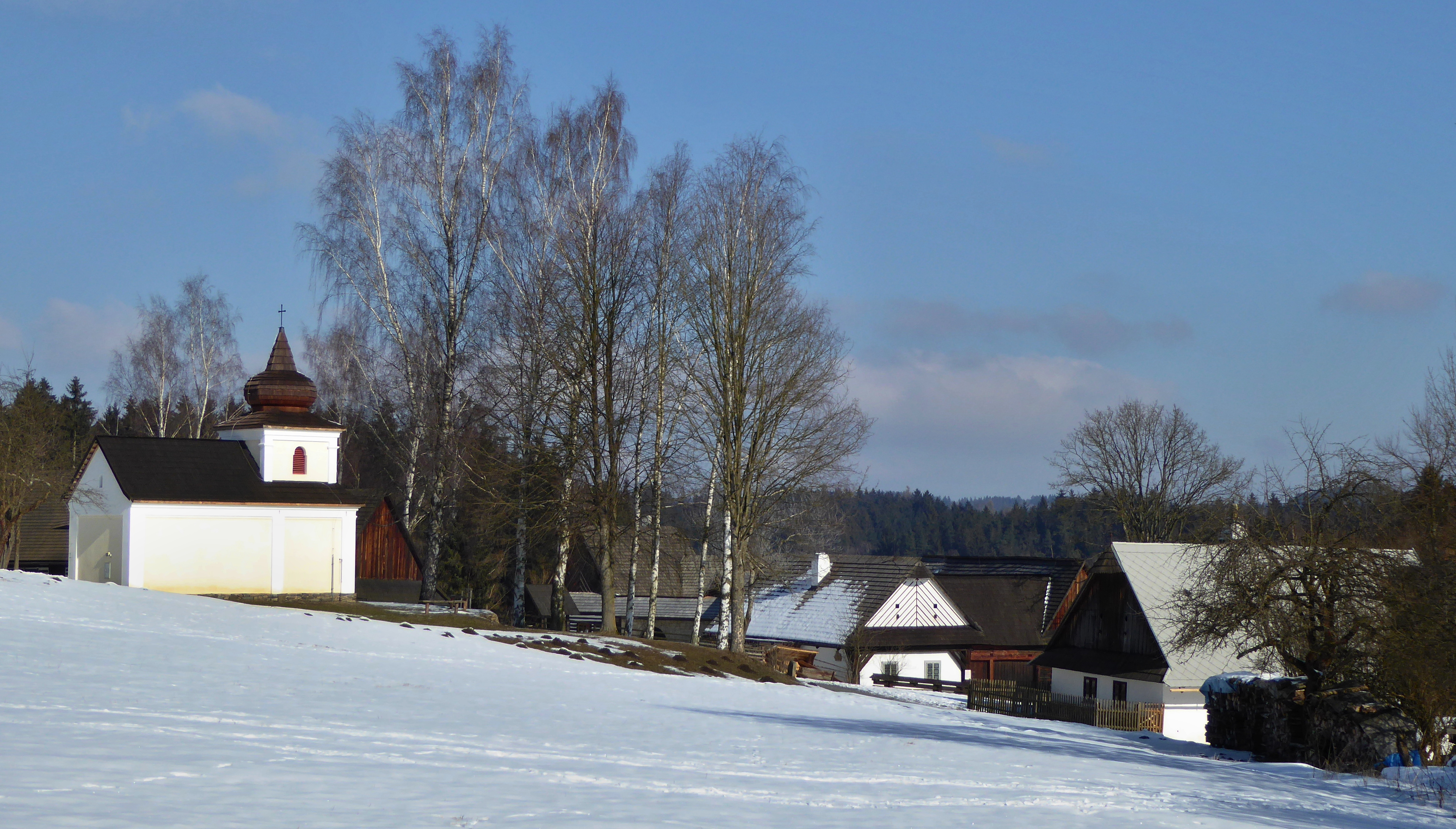 Open-air Museum Vysočina (formerly Set of Folk Buildings Vysočina), exposition in the small hamlet of Veselý Kopec, part the village Vysočina. In the natural area is led by a green marked tourist route of the Club of Czech Tourists, the way is through the whole year applicable. In the route also the homeland trail Landscape of Chrudimka river (Czech name: Krajem Chrudimky) and a hiking way of František Kavan, academic painter. From 1925 to 1930, he lived in the small hamlet Svobodné Hamry, painting landscape of the Irons Mountains, commonly referred to as highland (origin of name of village Vysočina). Photo-location: Czechia, Pardubice Region, village Vysočina, Veselý Kopec – small hamlet and exposition of Open-air Museum Vysočina, landscape area Stružinecká knoll land. Source of information: Open-air Museum Vysočina (formerly Set of Folk Buildings Vysočina), exposition Veselý Kopec, see